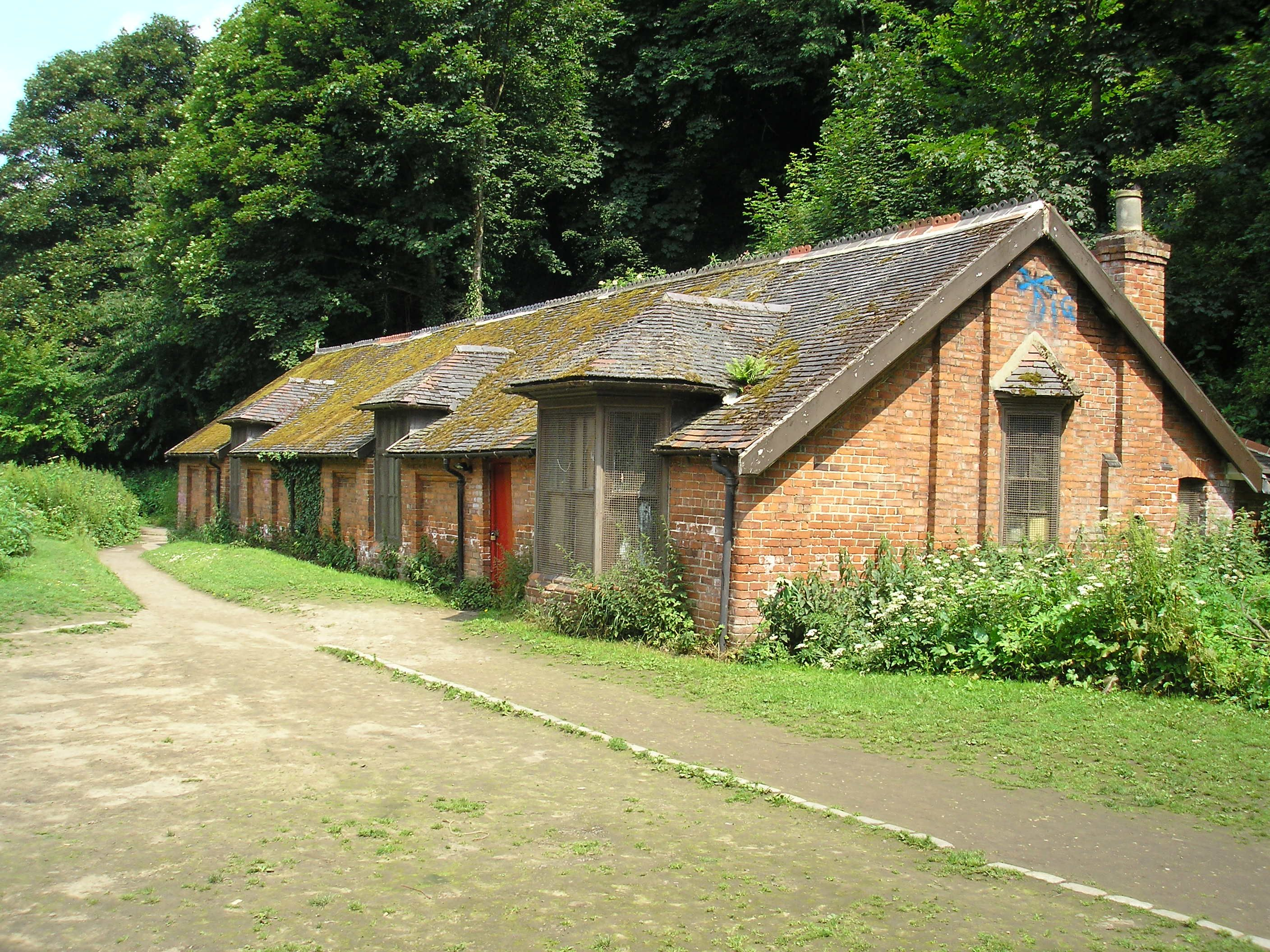 University College Boat Club (Durham) boathouse. The towpath alongside the river is clearly visable in the forground.